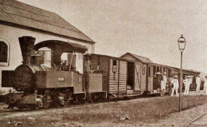 600 mm gauge Phủ Lạng Thương-Lạng Sơn line in Vietnam